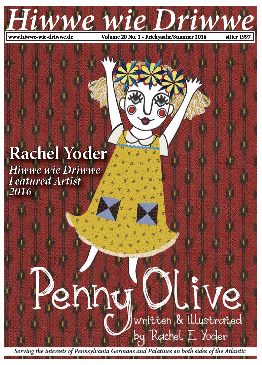 Hiwwe wie Driwwe - the Pennsylvania German newspaper